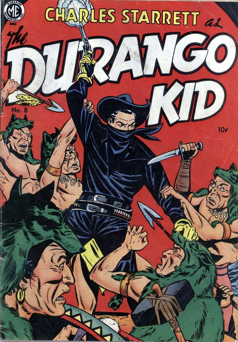 Charles Starrett as the Durango Kid v1 #8 1950